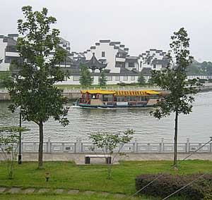 Shaoxing waterway photo, took it myself (2003/10).